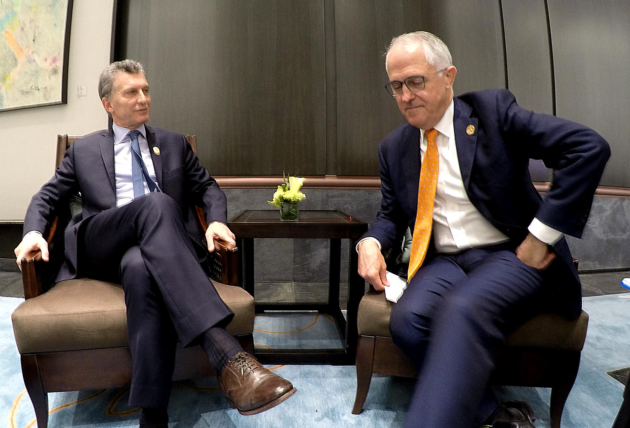 Argentina's president Mauricio Macri with his australian counterpart, Malcolm Turnbull.